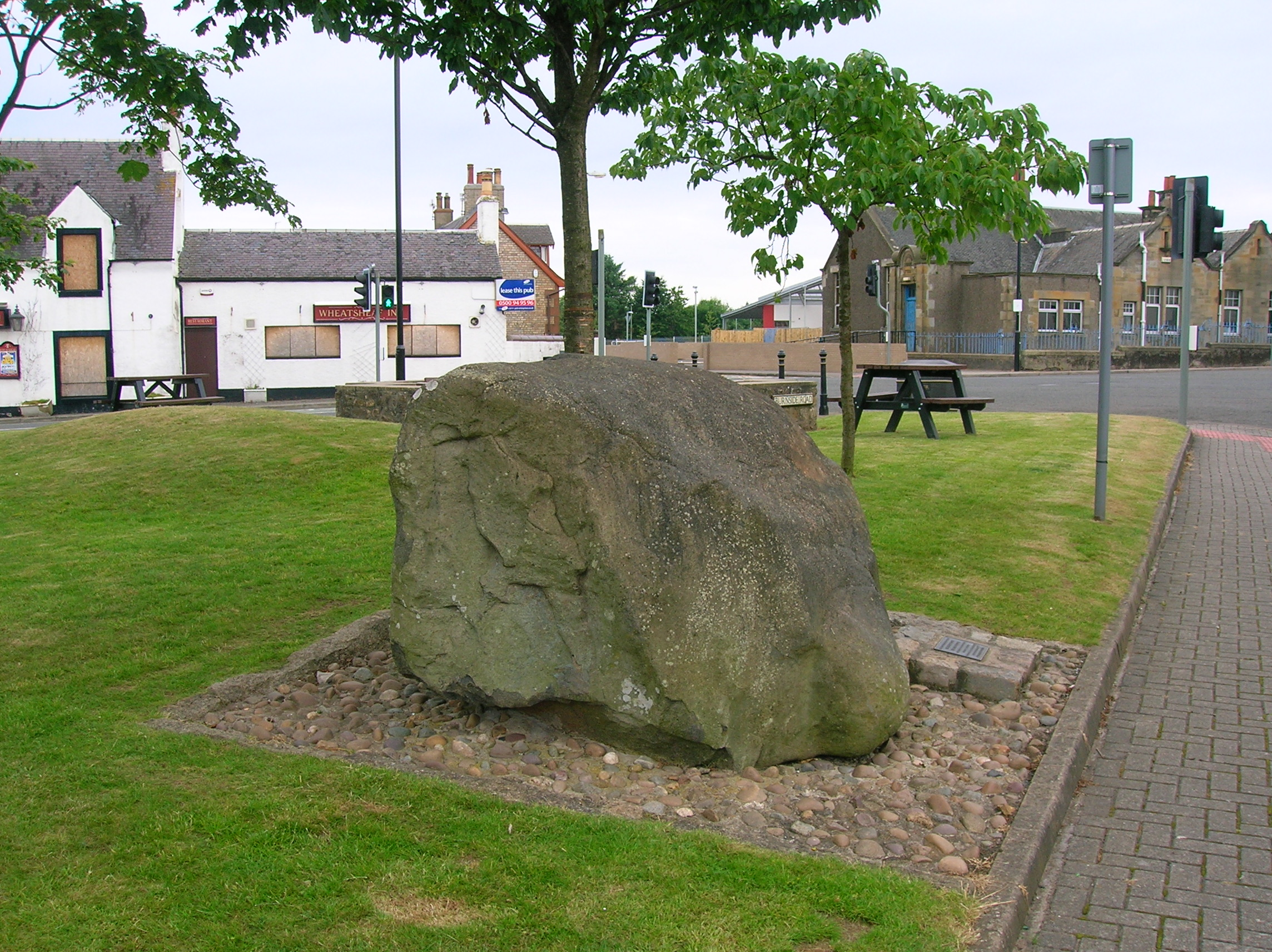 The Monkton Hare or Muckle stone, Monkton, South Ayrshire, Scotland.